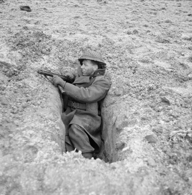 The British Army in North-west Europe 1944-45 A soldier of 3rd Division, armed with a Sten gun, occupies a slit trench at Helmond, 31 December 1944.